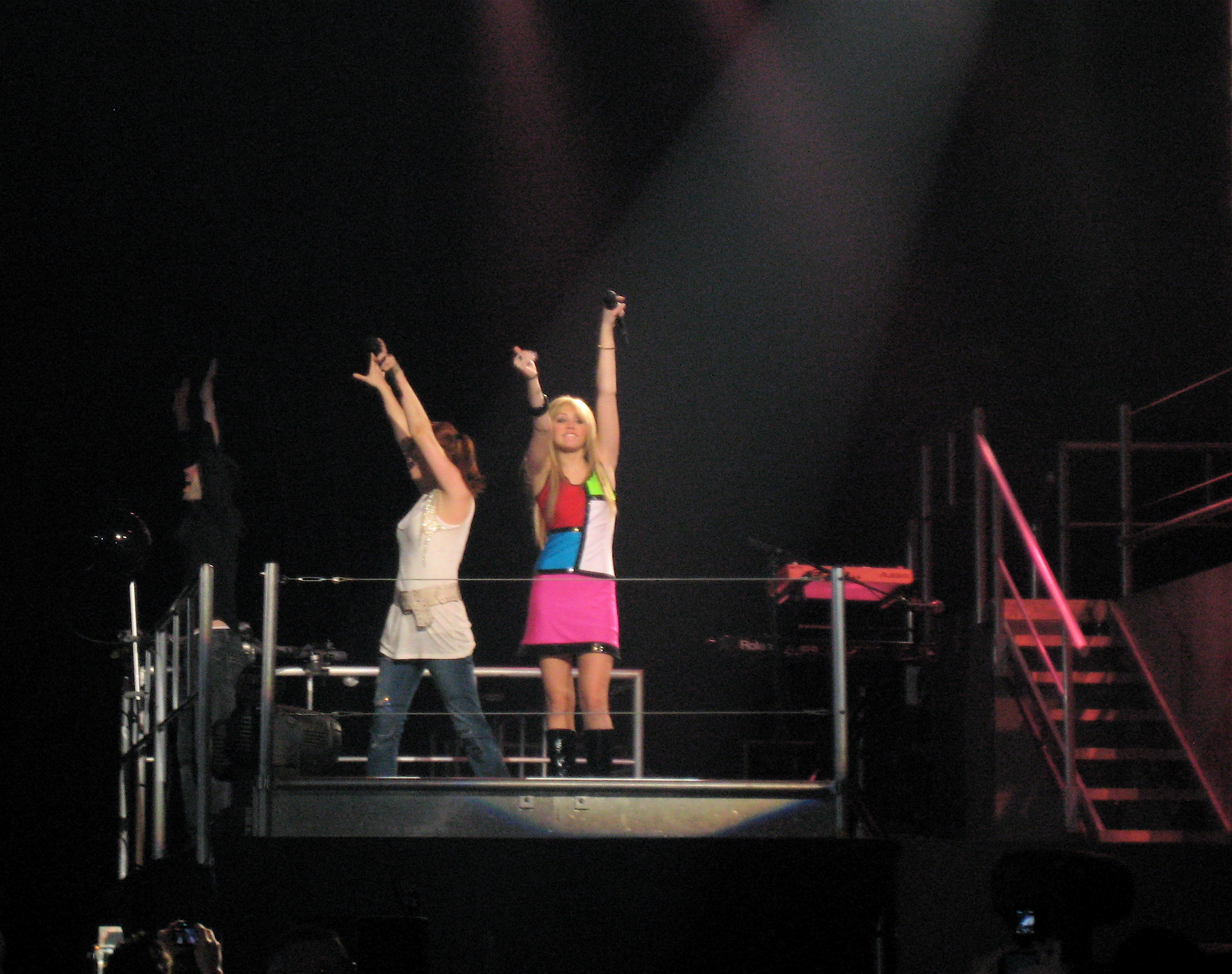 A teen singing.